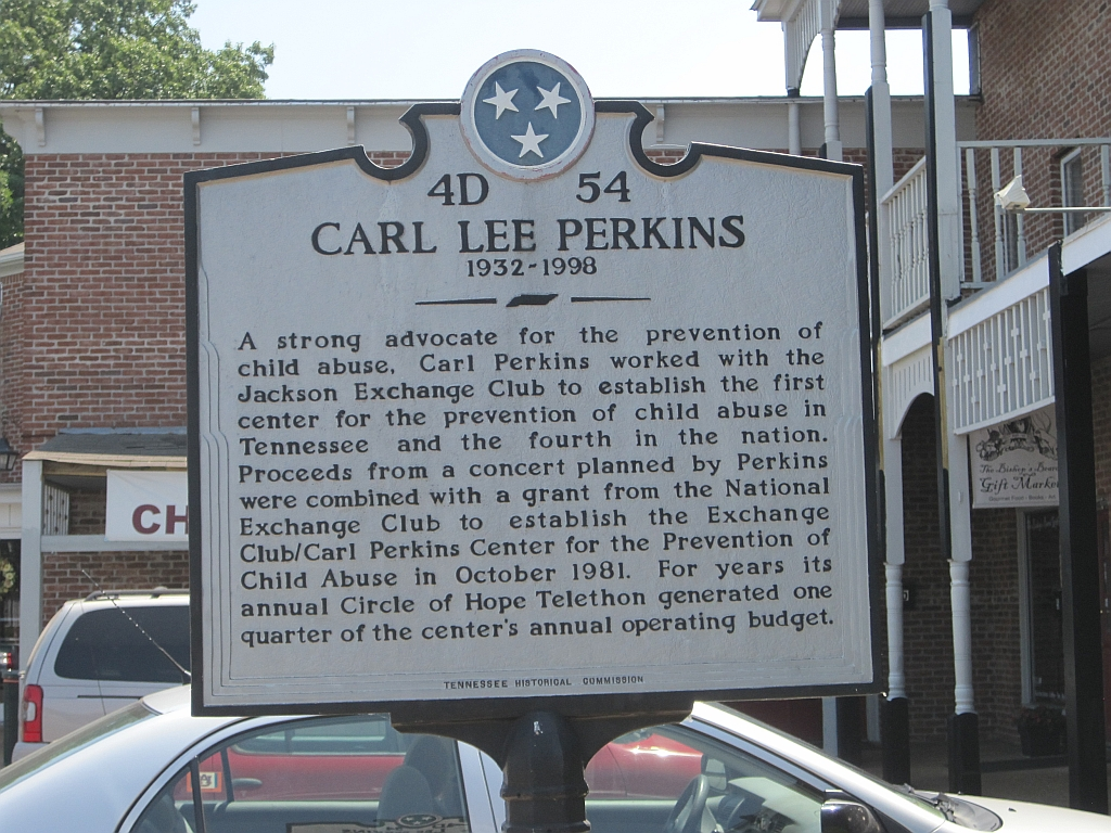 Casey Jones Village in Jackson, Tennessee..